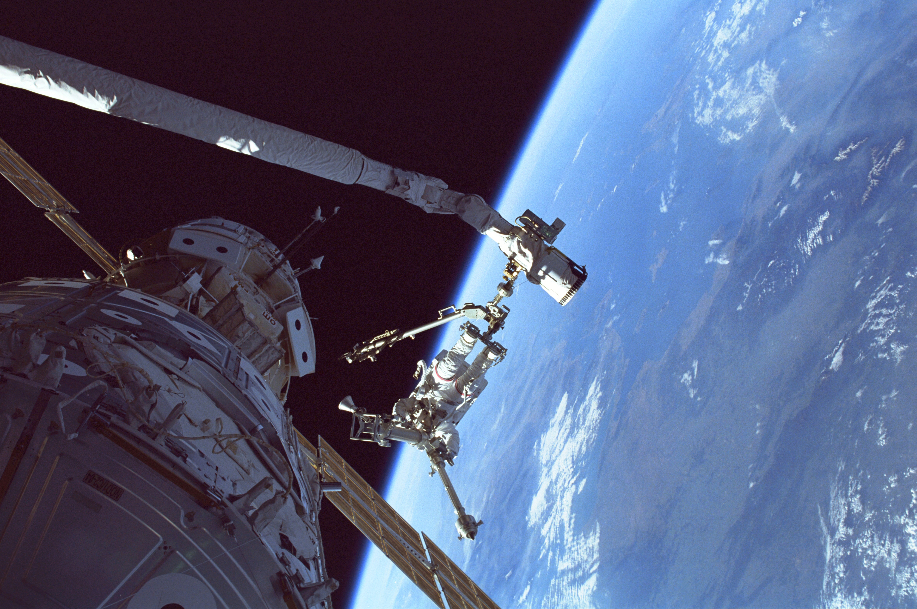 The Shuttle Discovery and the STS-96 crew made history in May 1999 when they became the first crew and orbiter to visit the International Space Station. Here, the Aegean Sea is the back drop for mission specialist Tamara E. Jernigan as she handles the American-built crane, which she later helped to install on the Station during a May 30 spacewalk. Jernigan's feet are anchored to a mobile foot restraint connected to Discovery's Canadian-built robot arm. Astronaut Tamara E. Jernigan, mission specialist, is backdropped over the Aegian Sea as she handles the American-built crane which she later helped to install on the International Space Station (ISS) during the May 30 space walk. Jernigan's feet are anchored to a mobile foot restraint connected to the Discovery's Canadian-built remote manipulator system (RMS). Jernigan was joined by astronaut Daniel T. Barry for the lengthy extravehicular activity (EVA). Parts of Greece, Turkey and the Dardenelles are visible some 171 nautical miles below the docked tandem of Discovery and the ISS.